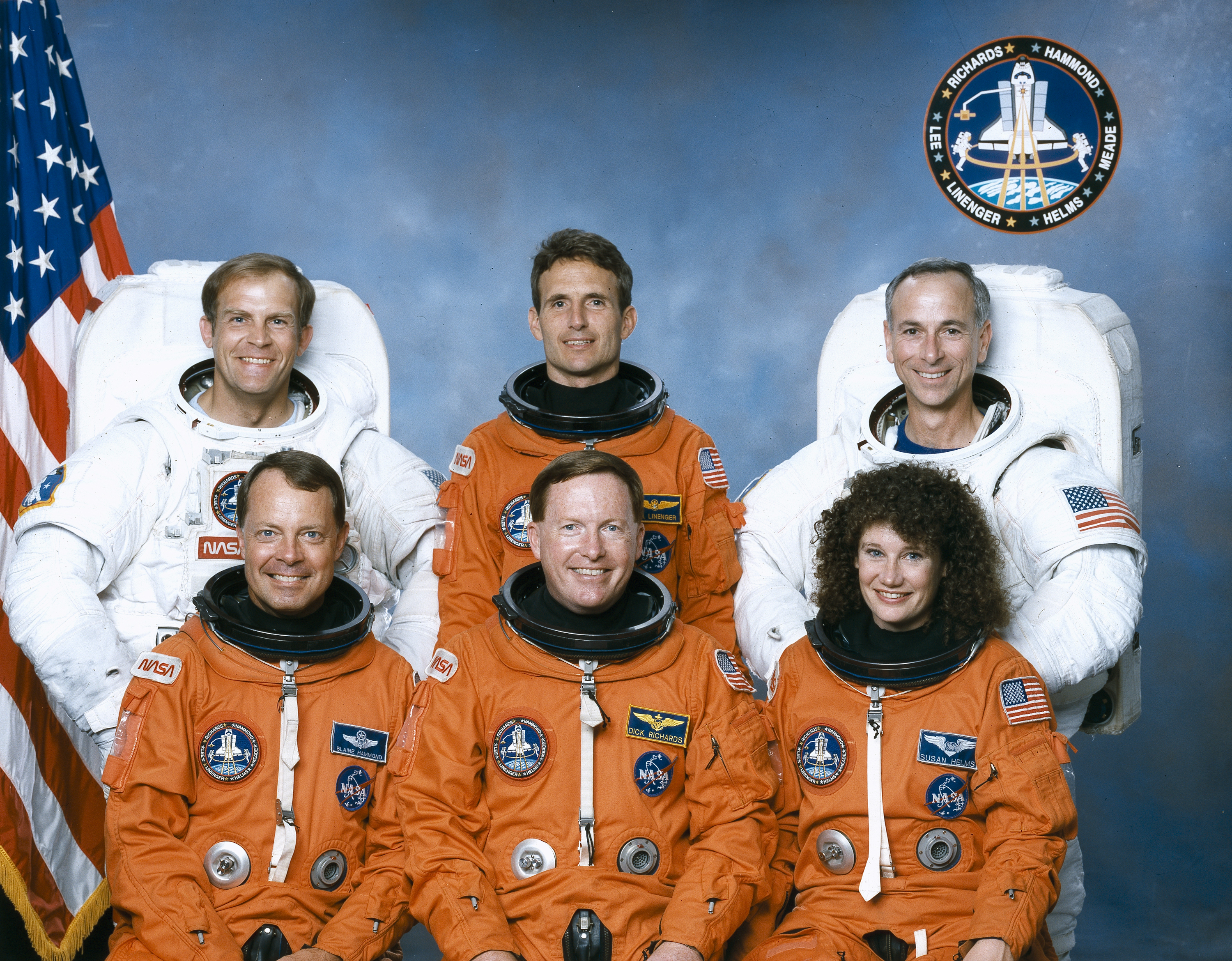 STS-64 Crew The crew assigned to the STS-64 mission included Richard N. Richards, commander (center front); L. Blaine Hammond Jr., pilot (front left); and Susan J. Helms, mission specialist (front right). On the back row, from left to right, are Mark C. Lee, Jerry M. Linenger, and Carl J. Meade, all mission specialists. Launched aboard the Space Shuttle Discovery on September 9, 1994 at 6:22:55 pm (EDT), the STS-64 mission marked the first flight of the Lidar In-Space Technology Experiment (LITE) and the first untethered Extravehicular Activity (EVA) in ten years.